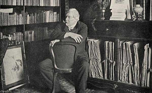 French writer Edmond de Goncourt (1822-1896) in his study.